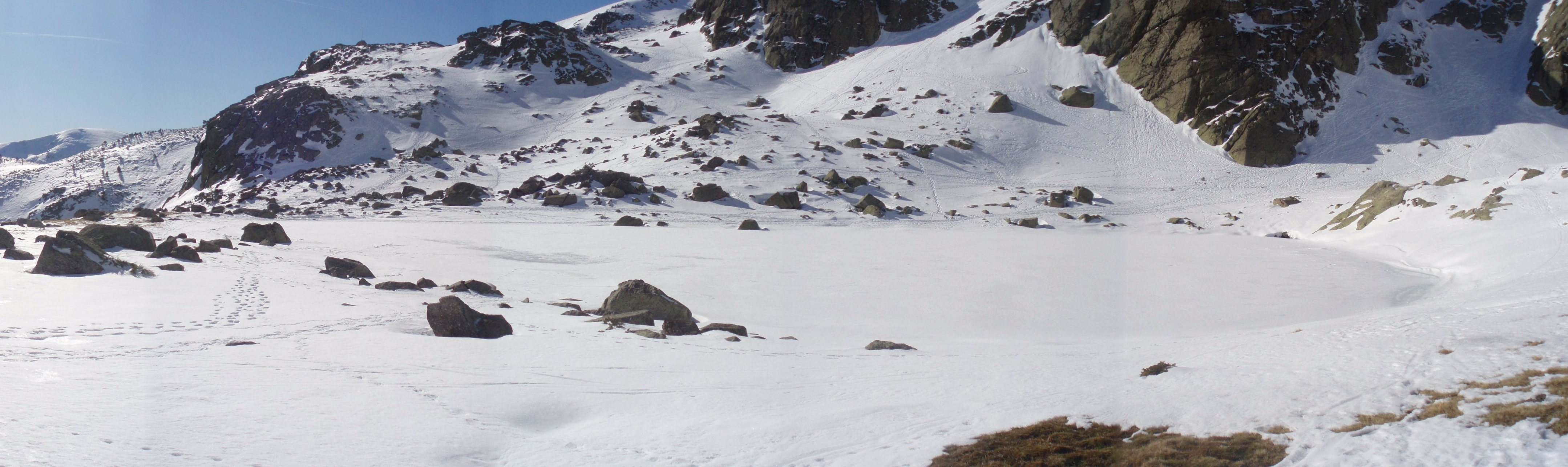 Glacial lake of Peñalara in Winter (Guadarrama mountain range, Central Spain).